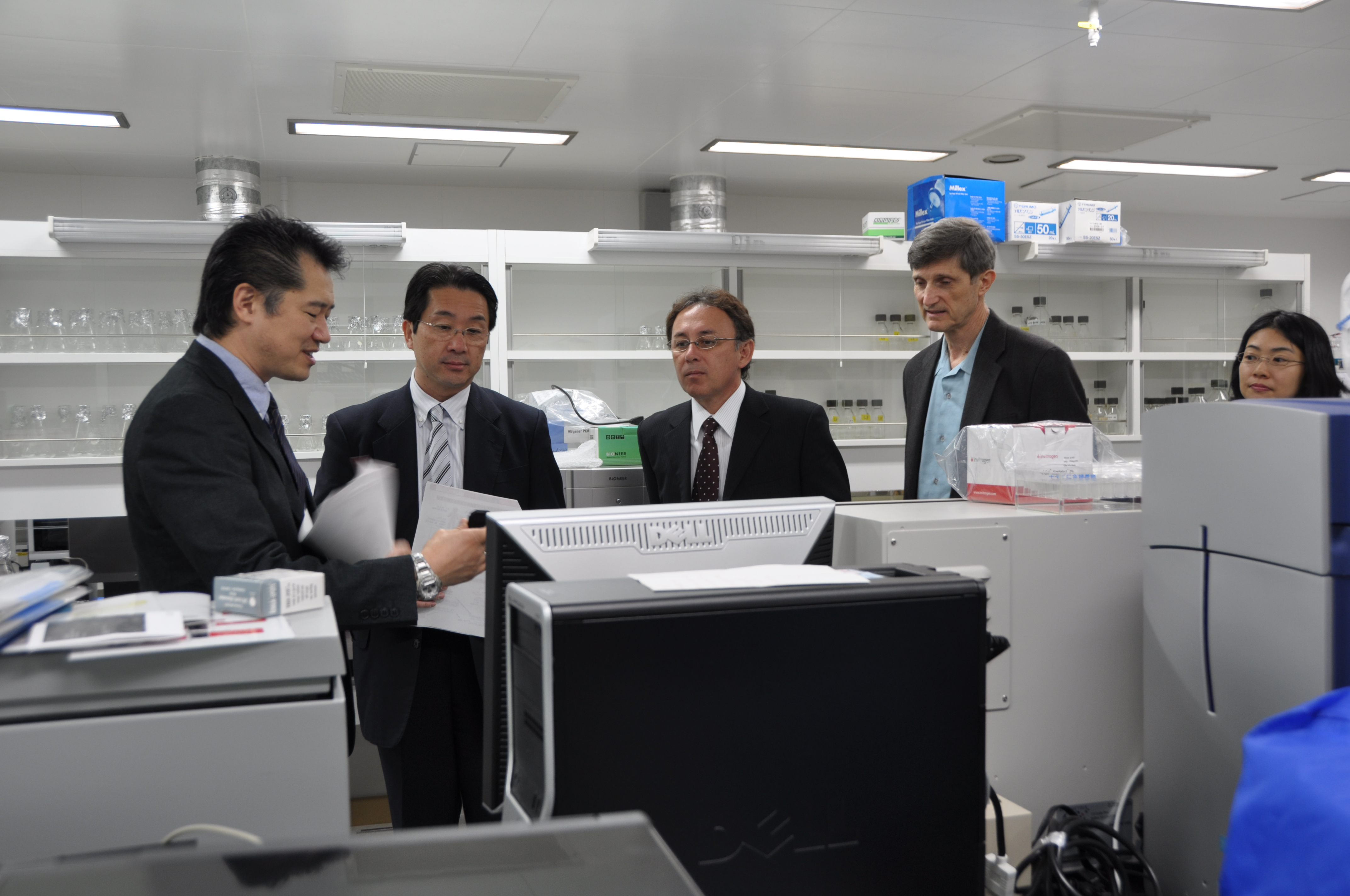 Koichi Takemasa | Denny Tamaki